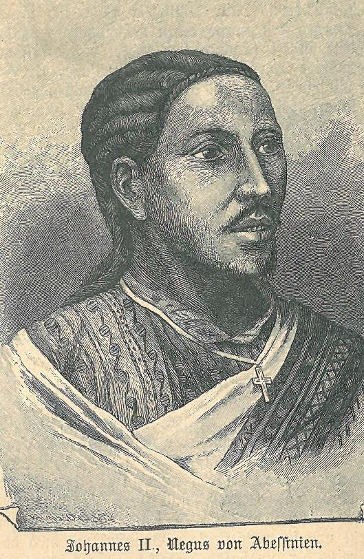 Yohannes IV. Neguse Negest von Abessinien